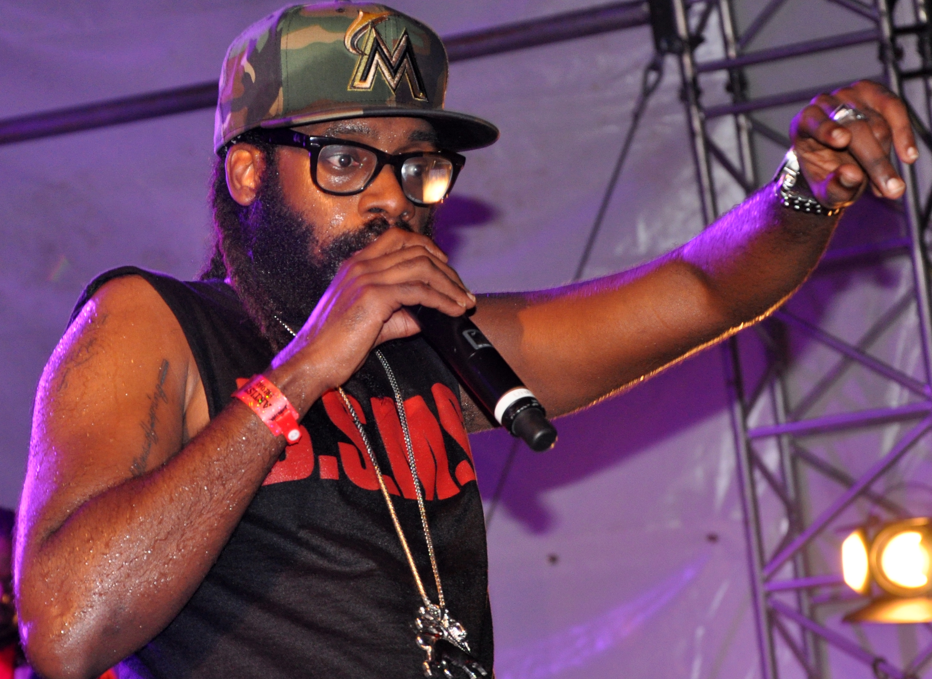 Tarrus Riley with his band performing on green stage at the Summerjam Festival 2013, Cologne